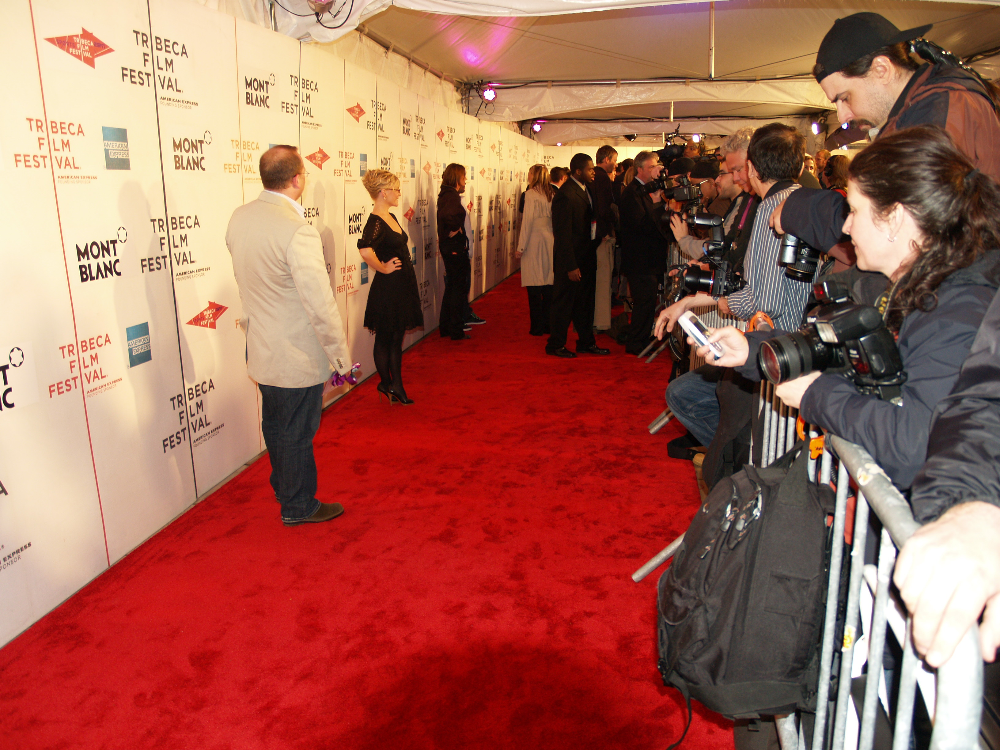 The red carpet at Tribeca Film Festival